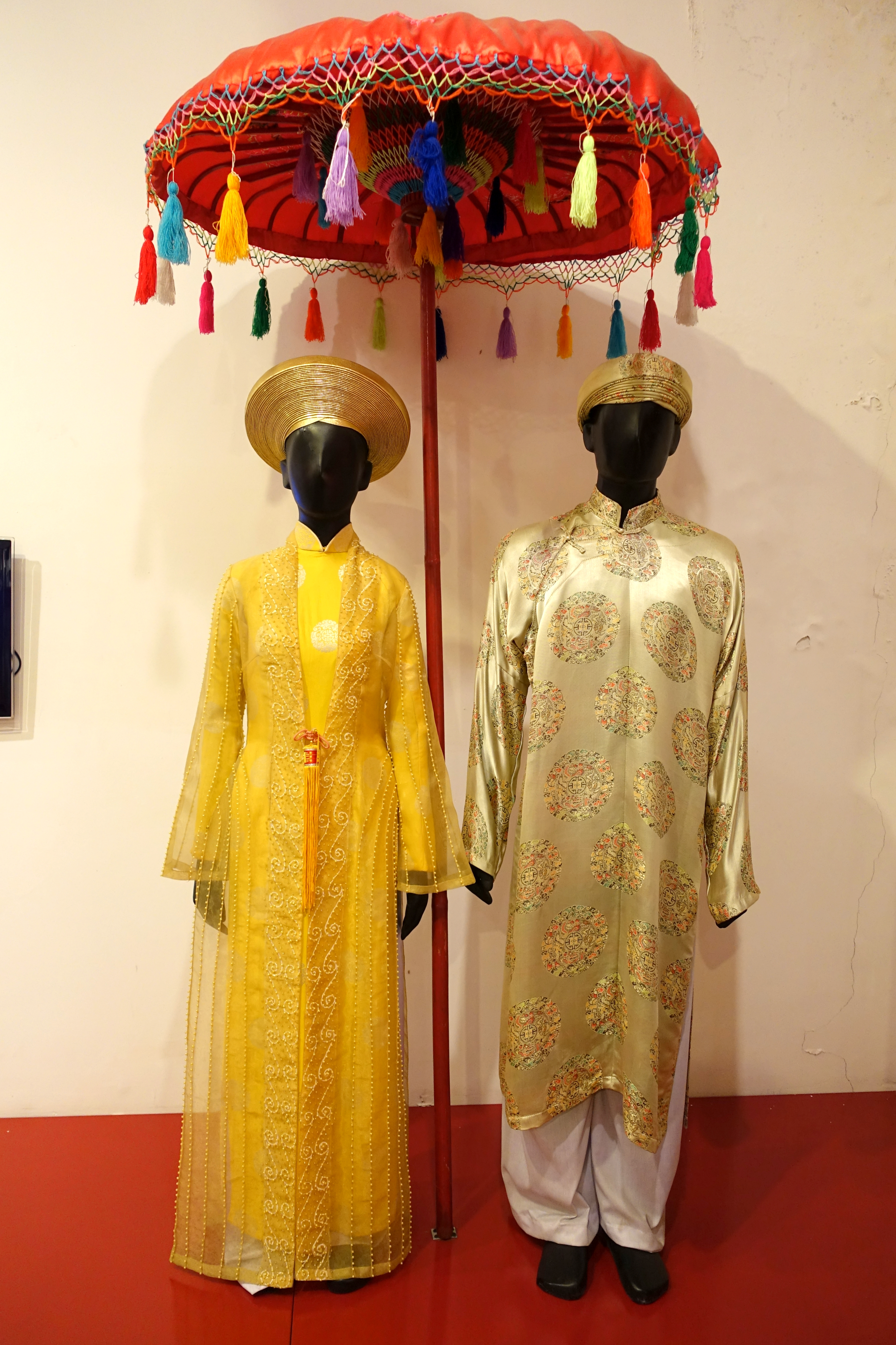 Exhibit in the Vietnamese Women's Museum, Hanoi, Vietnam.